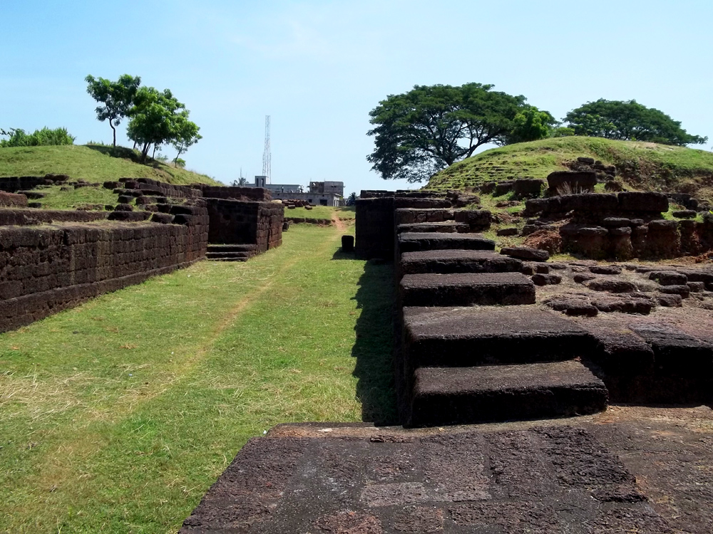 The remains of the ancient city Sisupalgarh has been discovered near Bhubaneswar,capital of an eastern state of Orissa in India.Archaeologists claim the city to be at least 2,500 years old.